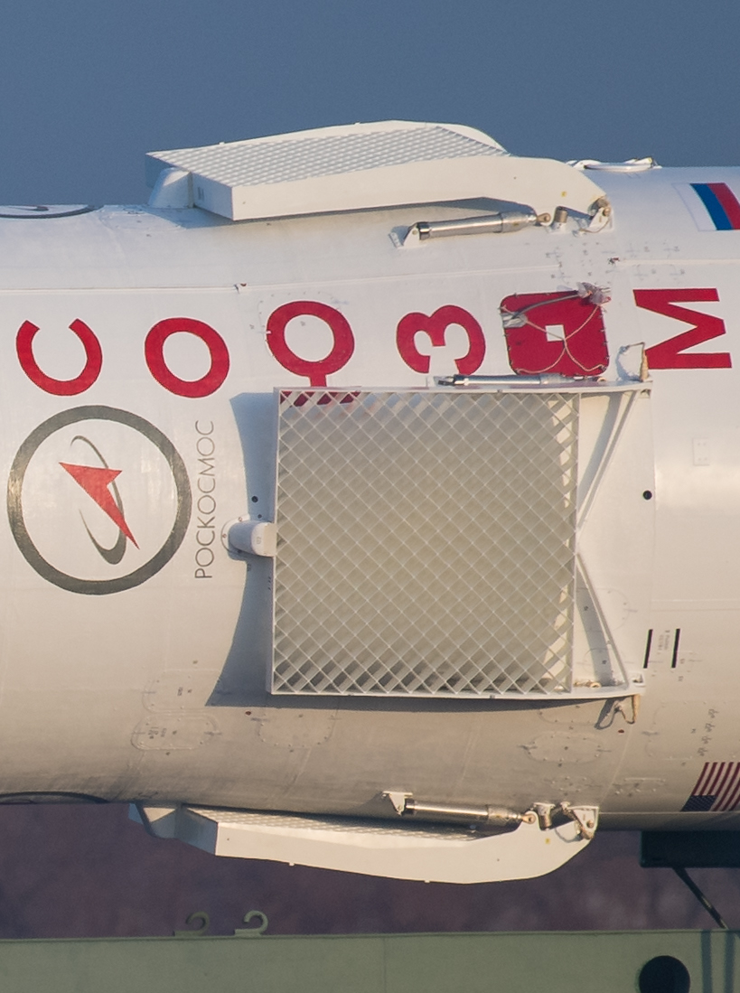 The Soyuz rocket is rolled out by train to the launch pad, Monday, March 19, 2018 at the Baikonur Cosmodrome in Kazakhstan. Expedition 55 crewmembers Ricky Arnold and Drew Feustel of NASA and Oleg Artemyev of Roscosmos are scheduled to launch at 1:44 p.m. Eastern time (11:44 p.m. Baikonur time) on March 21 and will spend the next five months living and working aboard the International Space Station.